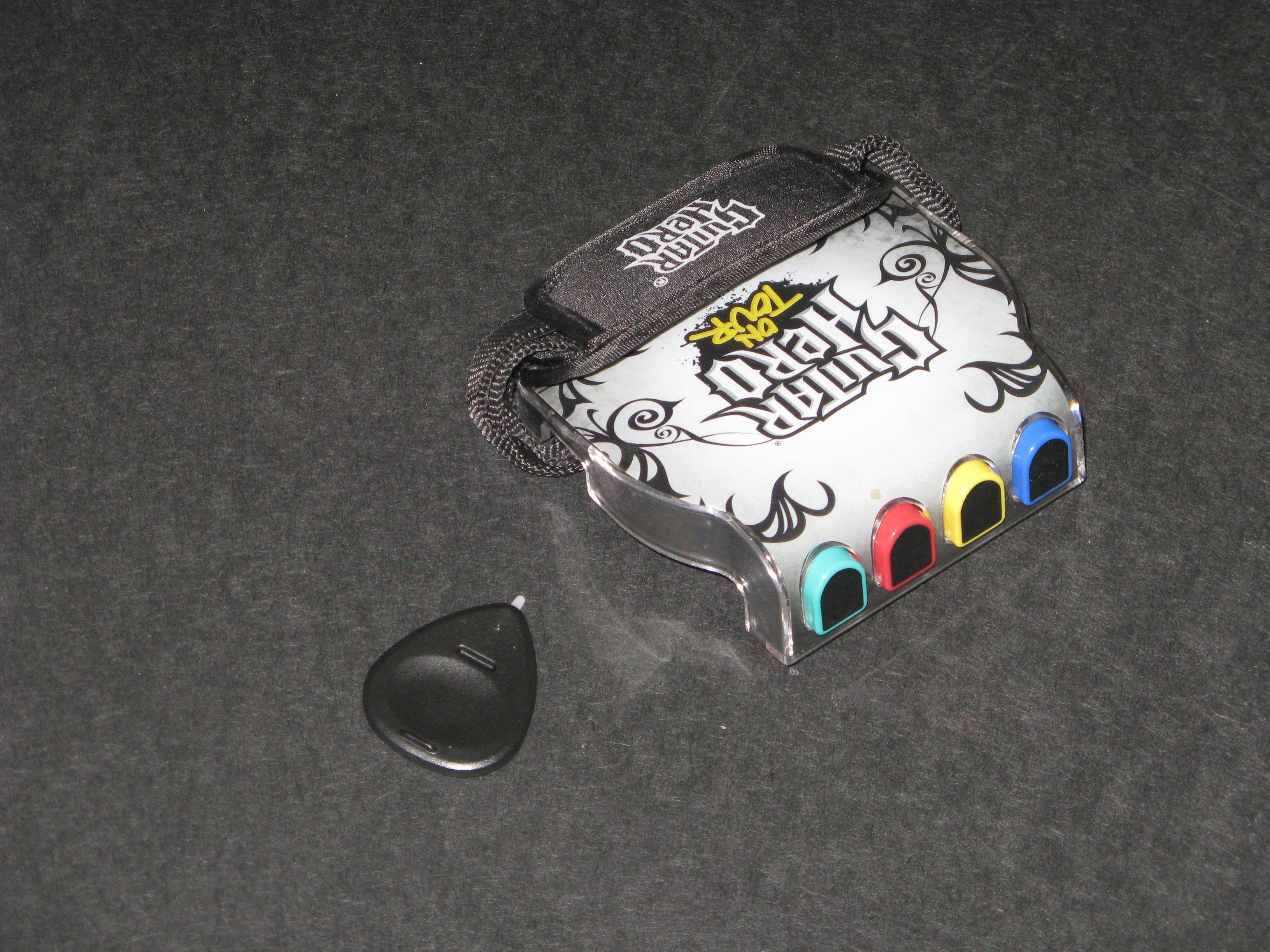 Photograph of the Guitar Hero Guitar grip controller for the Nintendo DS.